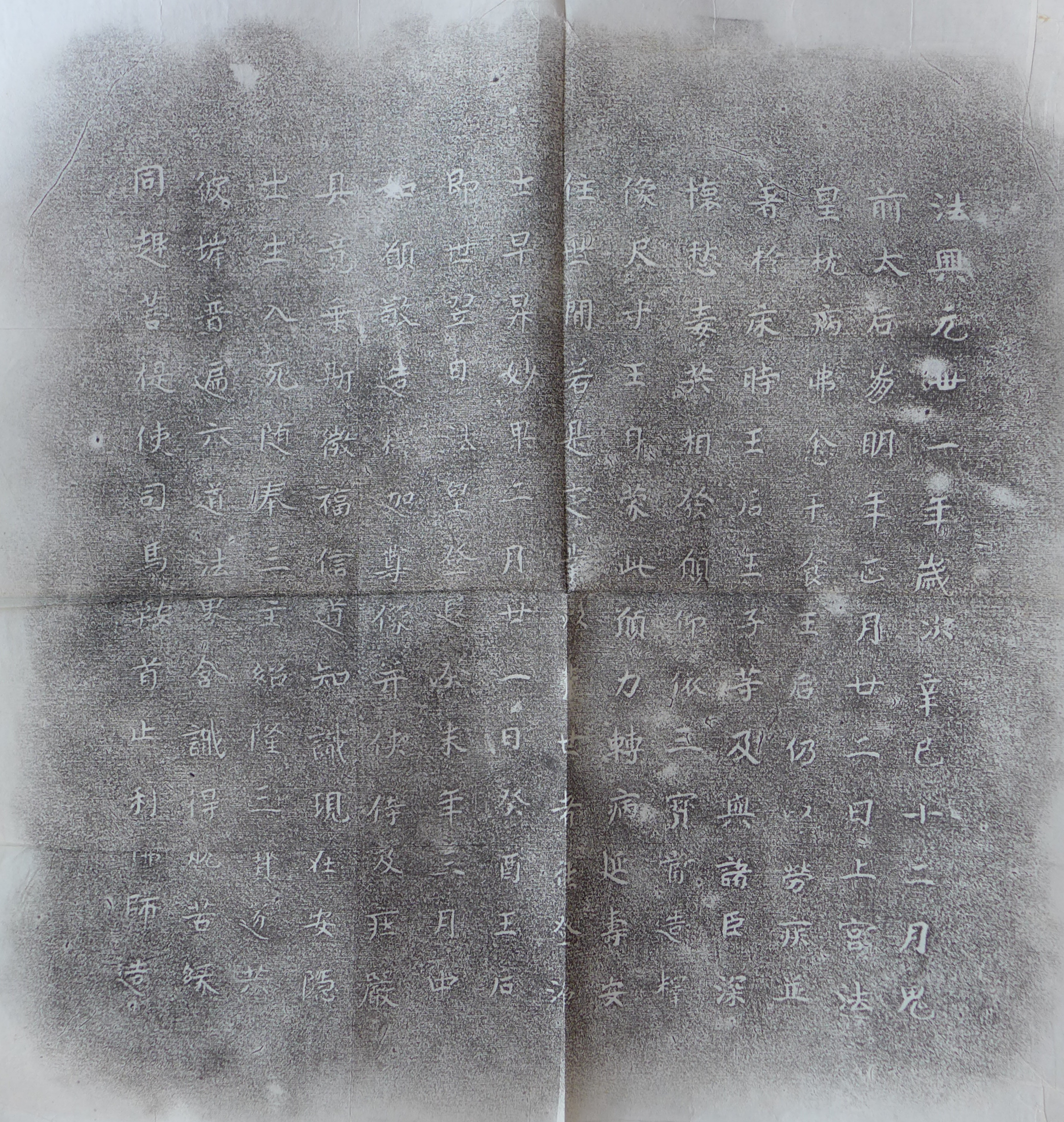 Inscription on the halo of Shakyamuni Buddha Triad in Horyu-ji Temple. ACE623, about 33cm height, 33cm wide